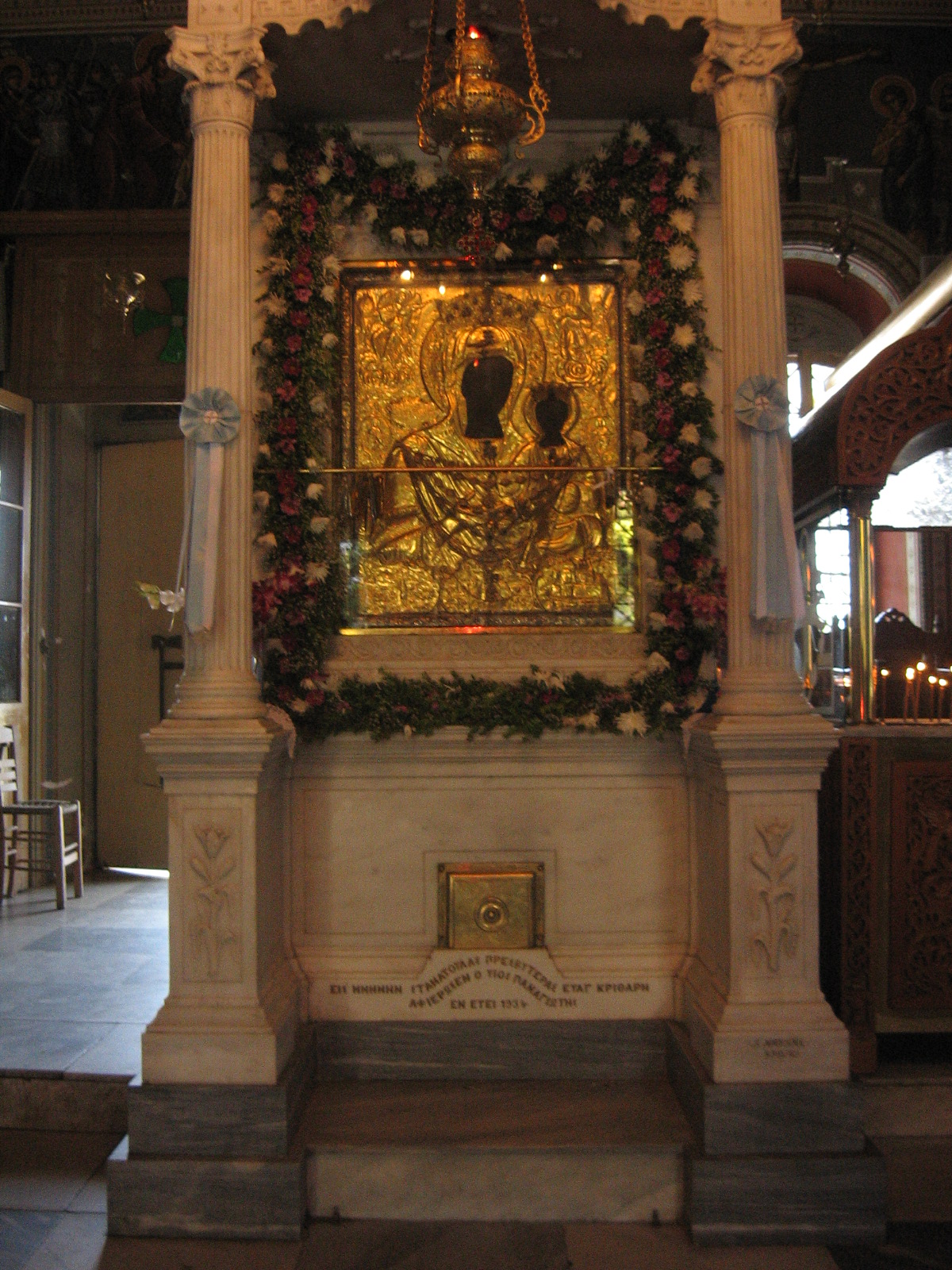 Panagia Mertidiotisa Icon